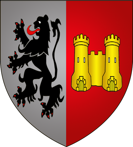 Coat of arms of the municipality of Bettembourg, Luxembourg